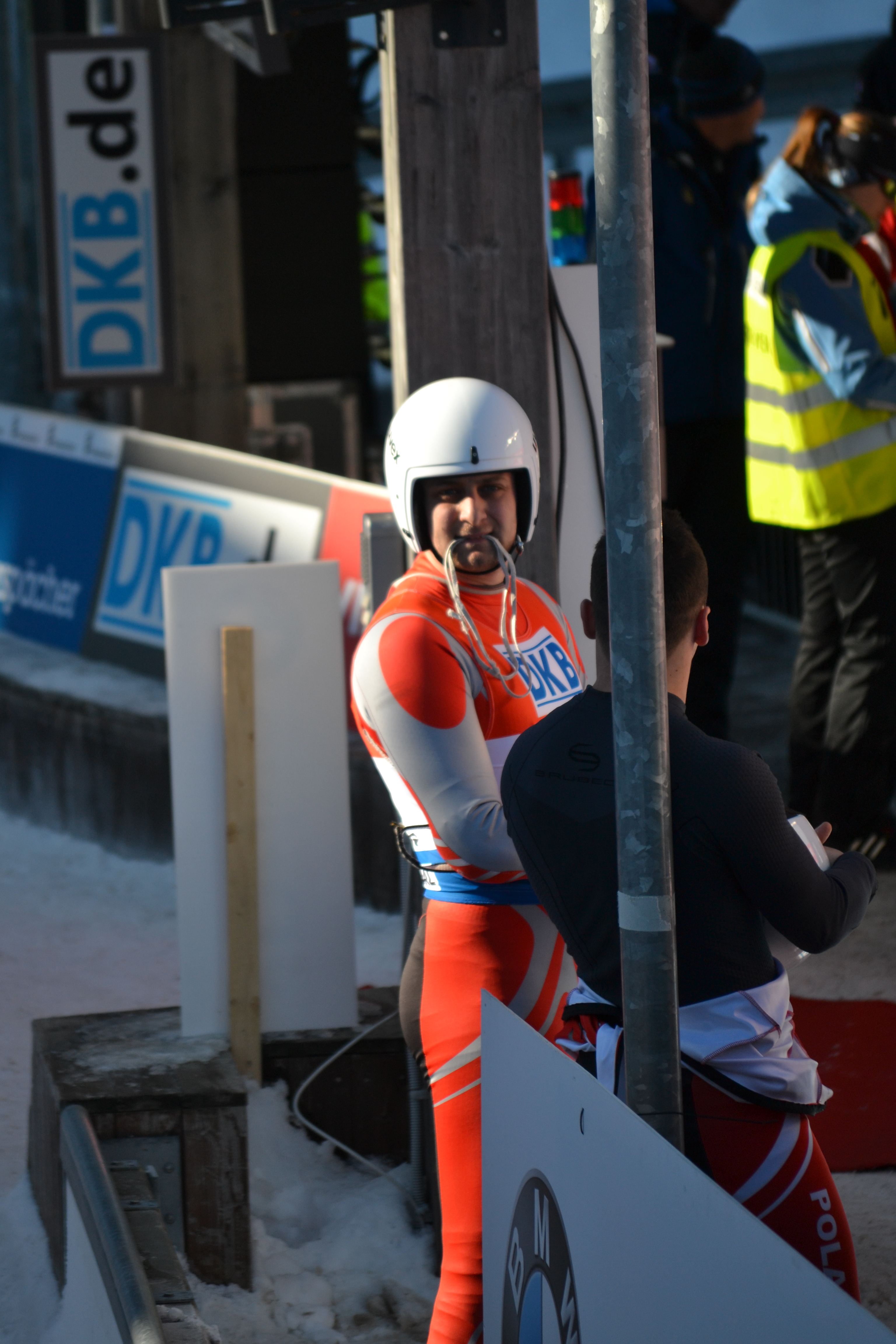 Luge world cup race season 2014/15 in Altenberg/Germany, 19th to 22nd Februar 2015. Day 2: Nations cup races.